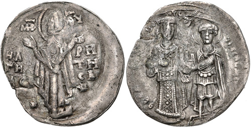 Billon trachy of Theodore Komnenos Doukas, Emperor of Thessalonica, ca.1225/7-1230. Original description: Theodore Comnenus-Ducas. As emperor of Thessalonica, 1225/7-1230. AR Trachy (22mm, 1.71 g, 6h). Type B. Thessalonica mint. Struck circa 1227. Standing facing figure of the Theotokos, orans / Theodore and St. Demetrius standing facing, holding castle between them. DOC 2b; SB 2159. Good VF, toned, flattened. Rare.